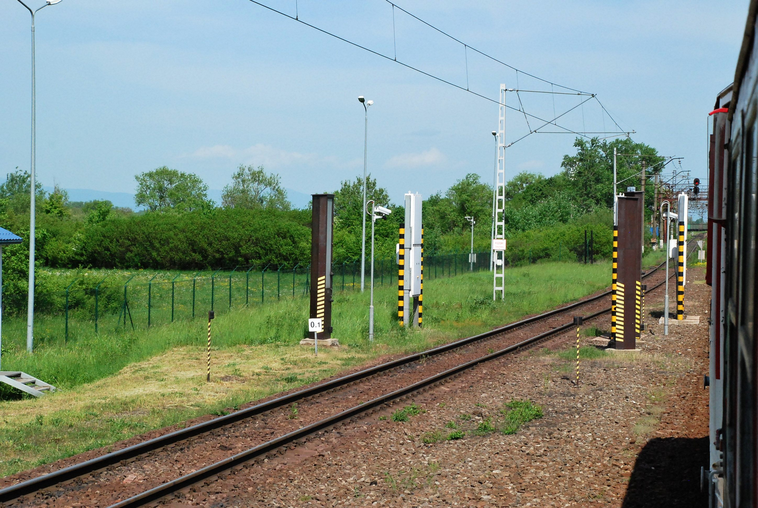 Slovak-Ukrainian state border between Čierna nad Tisou and Chop. Scan control device.